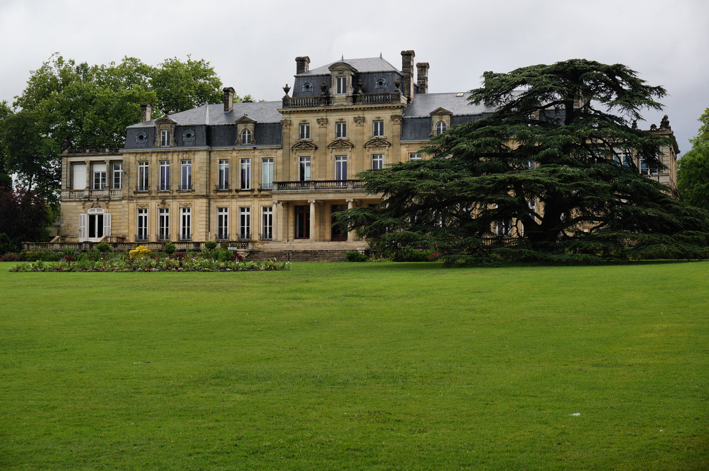 Bourran castle in the rain, Merignac (Gironde, France).